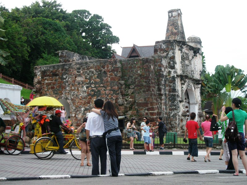 Title: A Famosa Taken by: Adiput Date: 2007